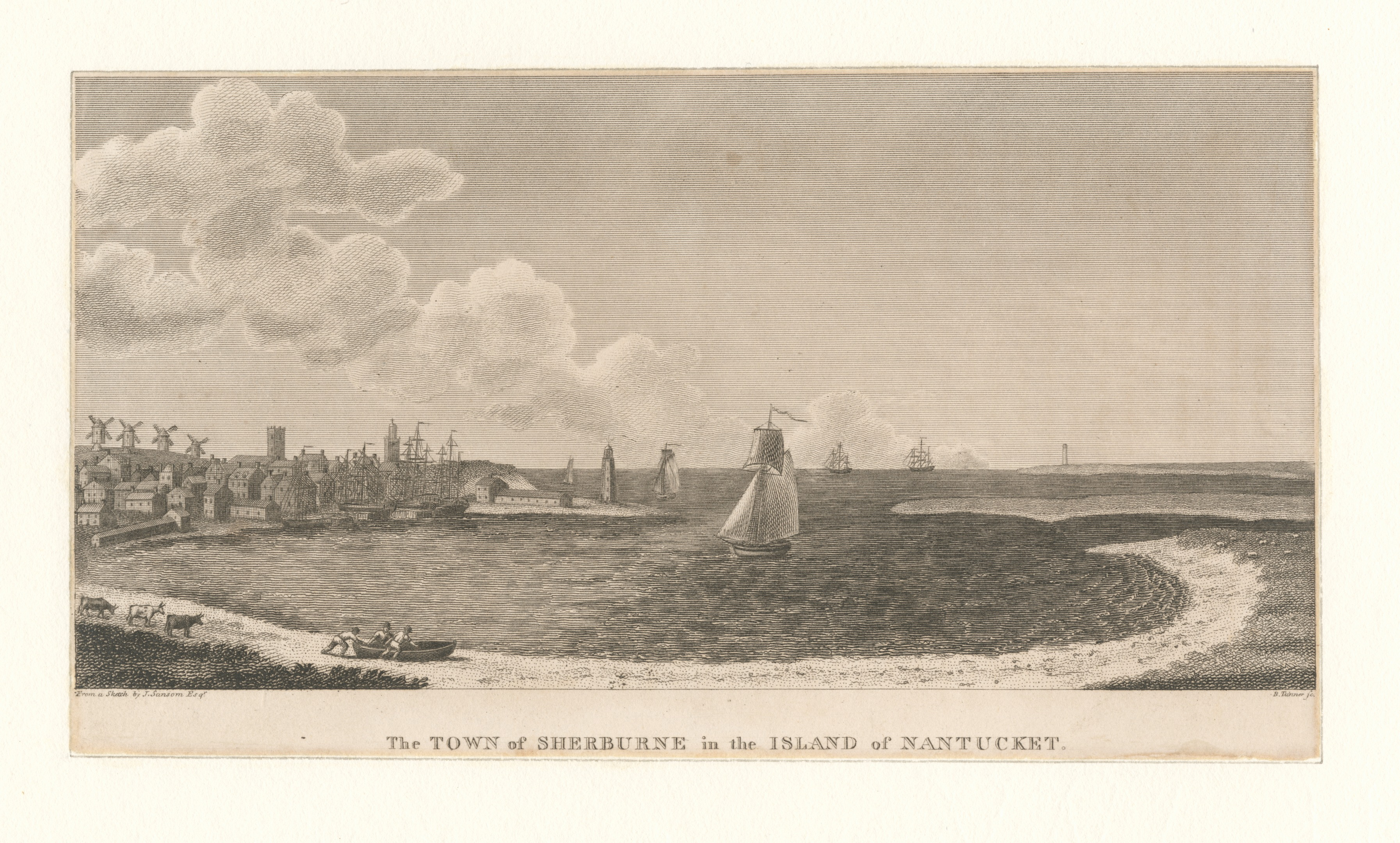 Printmakers include Valentine Green, Henry Bryan Hall and James Barton Longacre. Title from Calendar of Emmet Collection. EM7792 Statement of responsibility : B. Tanner